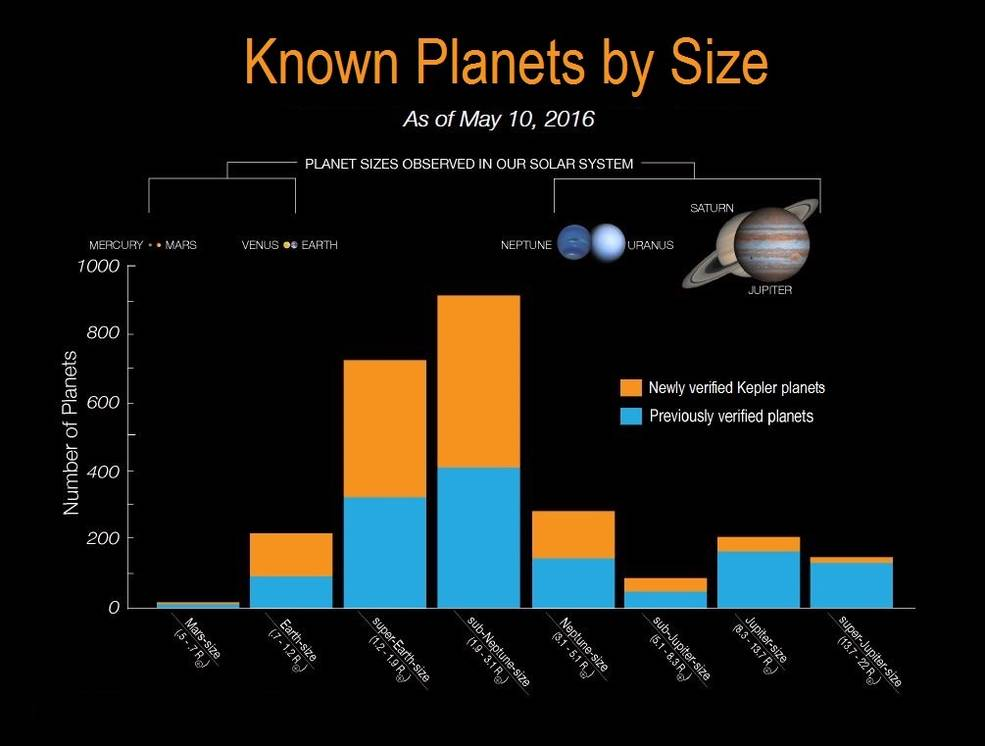 The histogram shows the number of planets by size for all known exoplanets. The blue bars on the histogram represent all previously verified exoplanets by size. The orange bars on the histogram represent Kepler's 1,284 newly validated planets announcement on May 10, 2016.